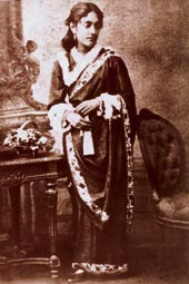 A photograph of Kadamvari Devi